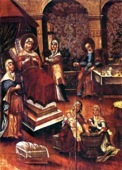 The Nativity of the Virgin